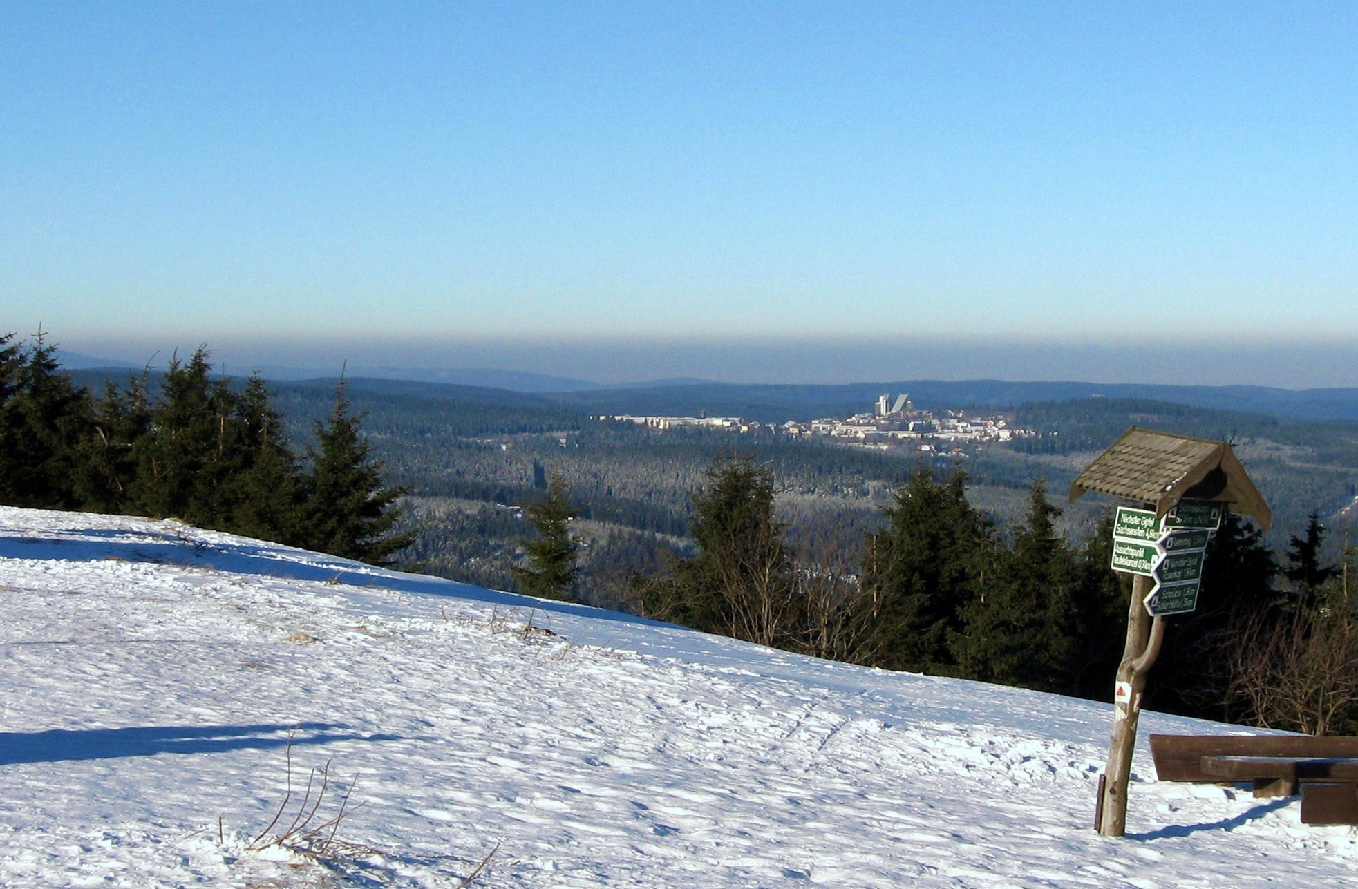 Germany / Thuringian Forest: Mountain Schneekopf in view of Oberhof (in 5 Kilometres). The City is the biggest Winter Sport Destination in the Thuringian Forest.